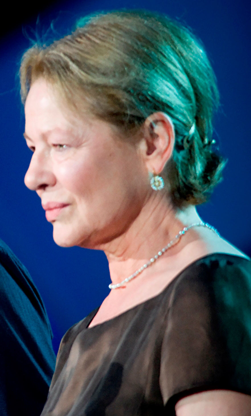 Dianne Wiest at the National Memorial Day Concert in Washington, D.C., May 24, 2009.